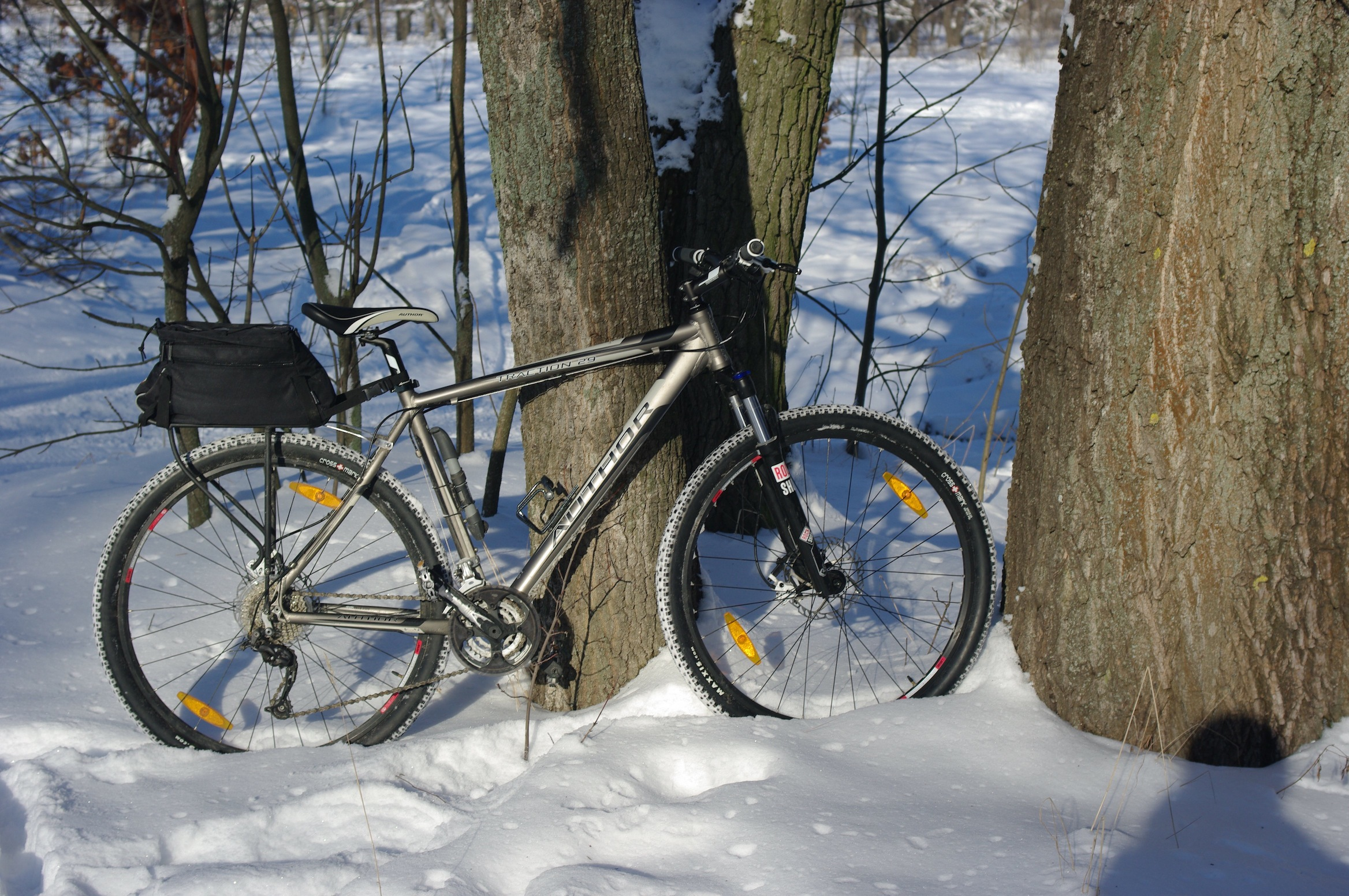 Author Traction 29 in winter